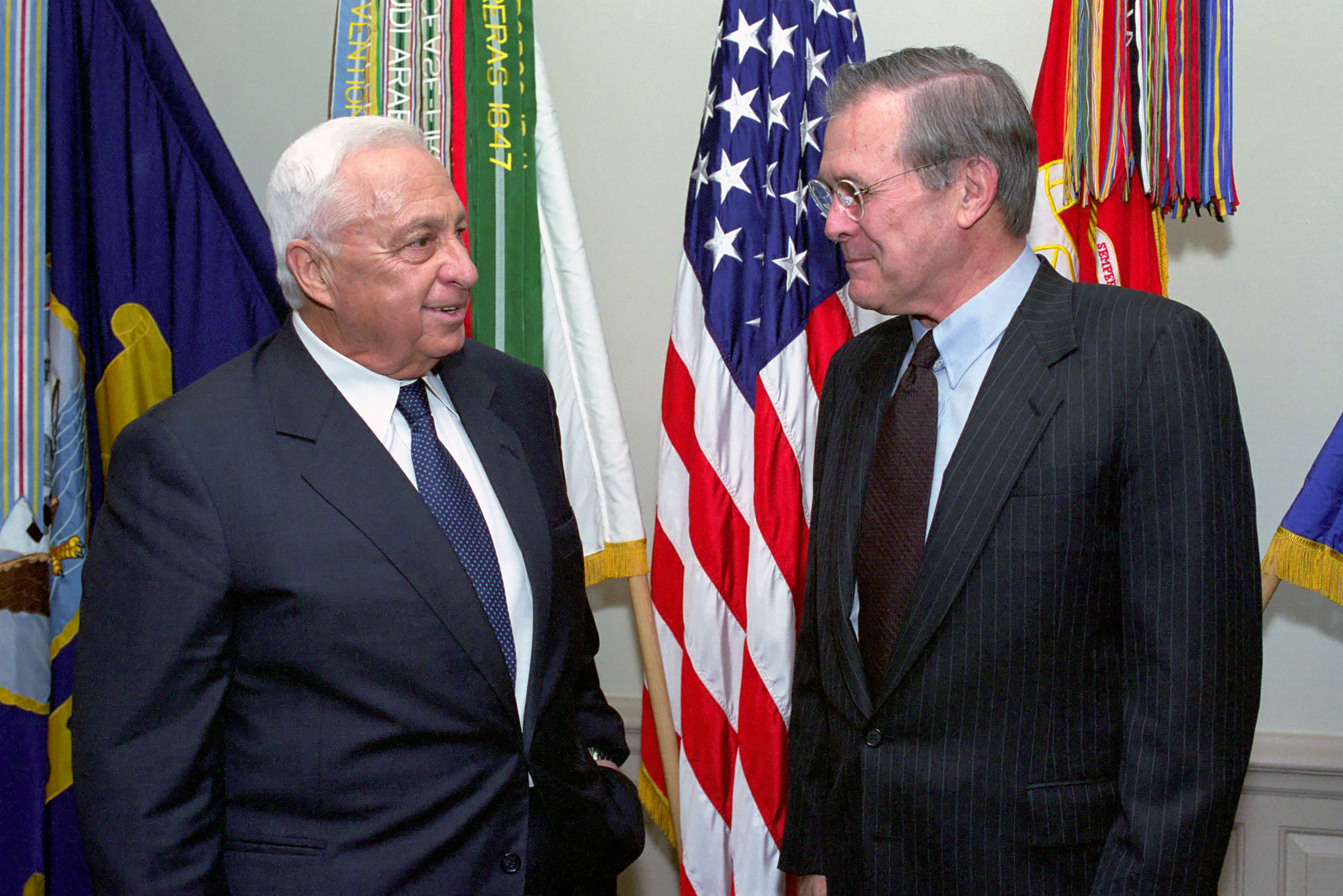 The Honorable Donald H. Rumsfeld (right), U.S. Secretary of Defense, and Ariel Sharon, Israeli Prime Minister, pose for a picture at the Pentagon, Room 3E912